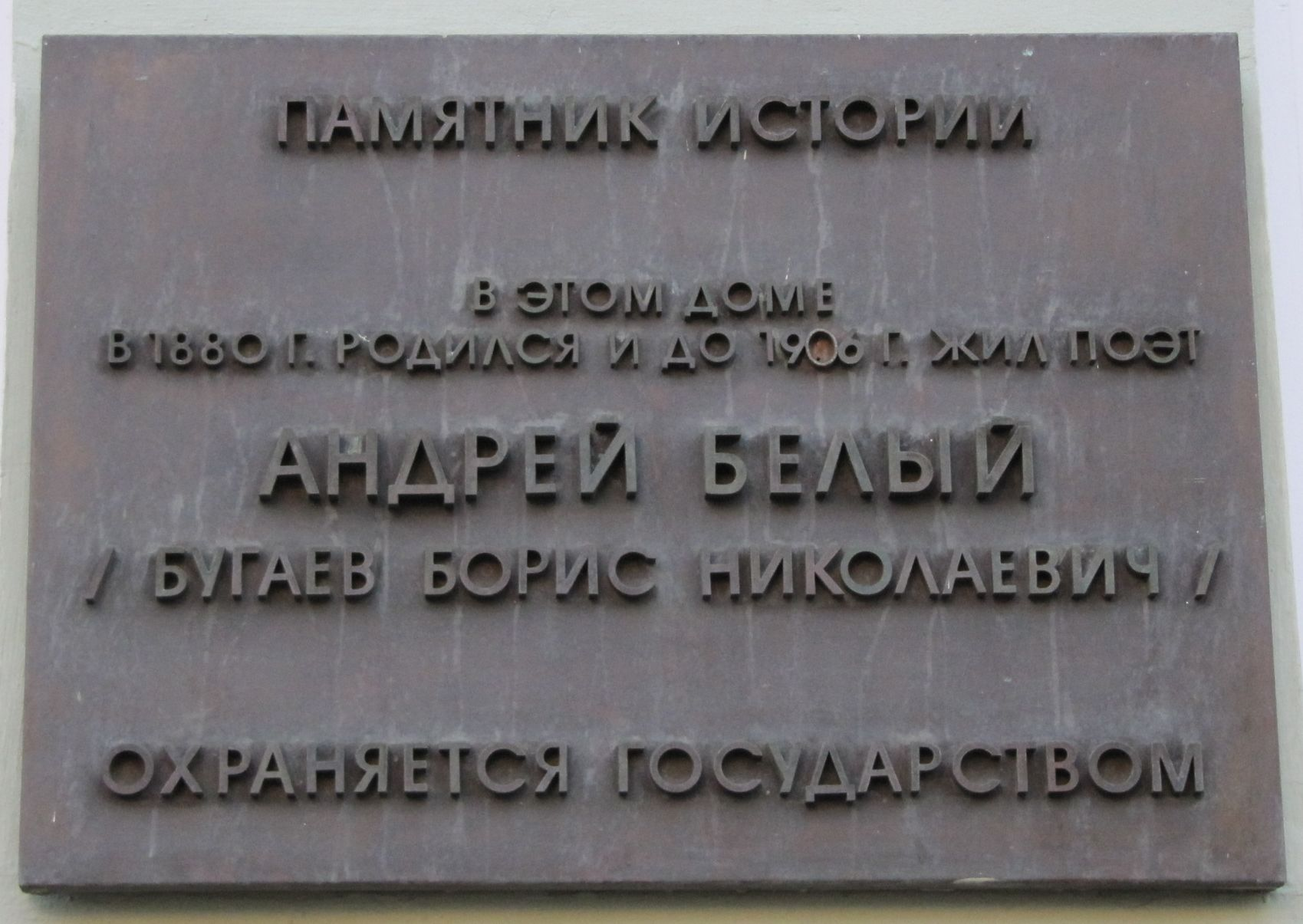 In this house was born in 1880 and lived until 1906 a prominent Russian poet Andrei Bely (Boris Bugaev). Moscow, Arbat str., 55